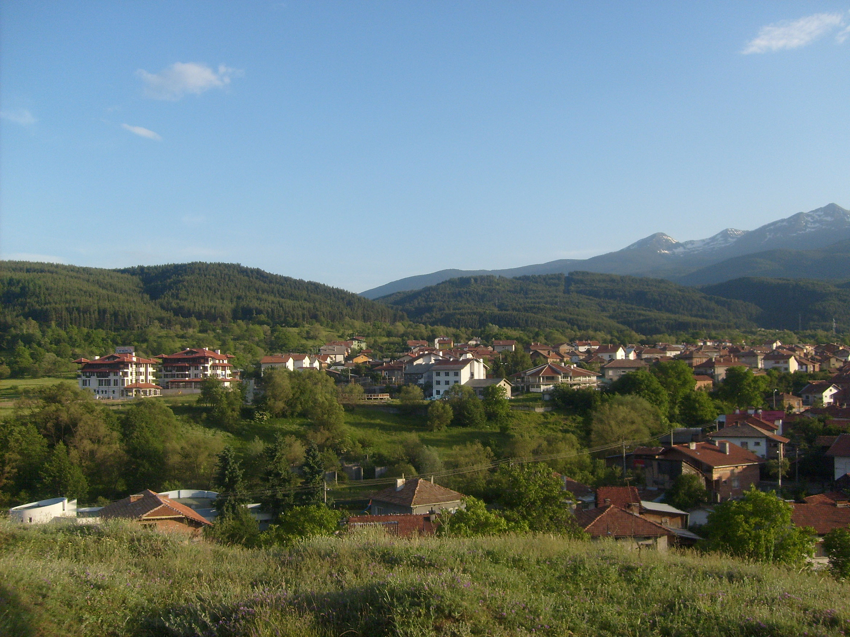 Overview of Dobrinishte, Blagoevgrad Province, Bulgaria